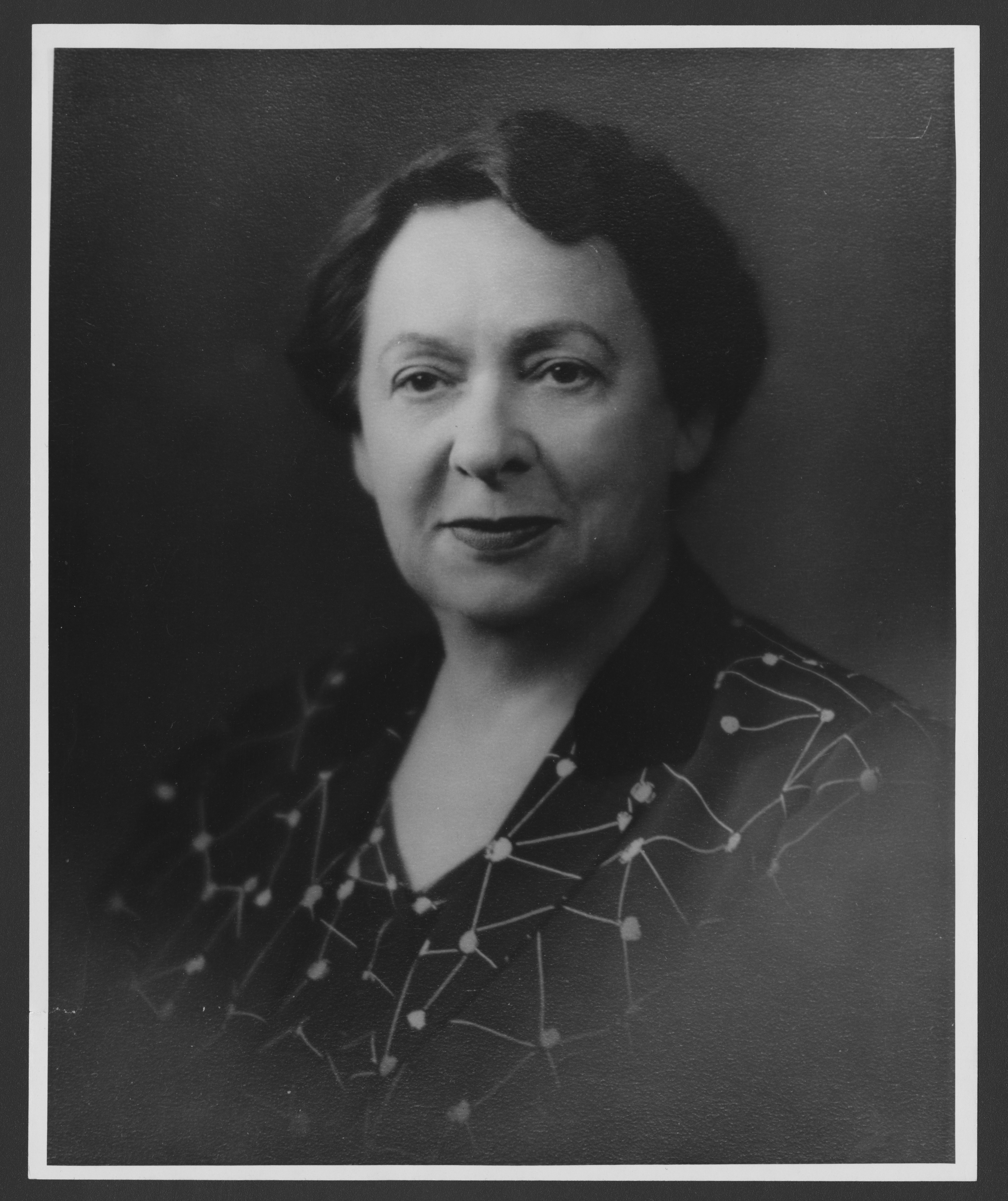 U.S. Senator from Nebraska Hazel Abel.